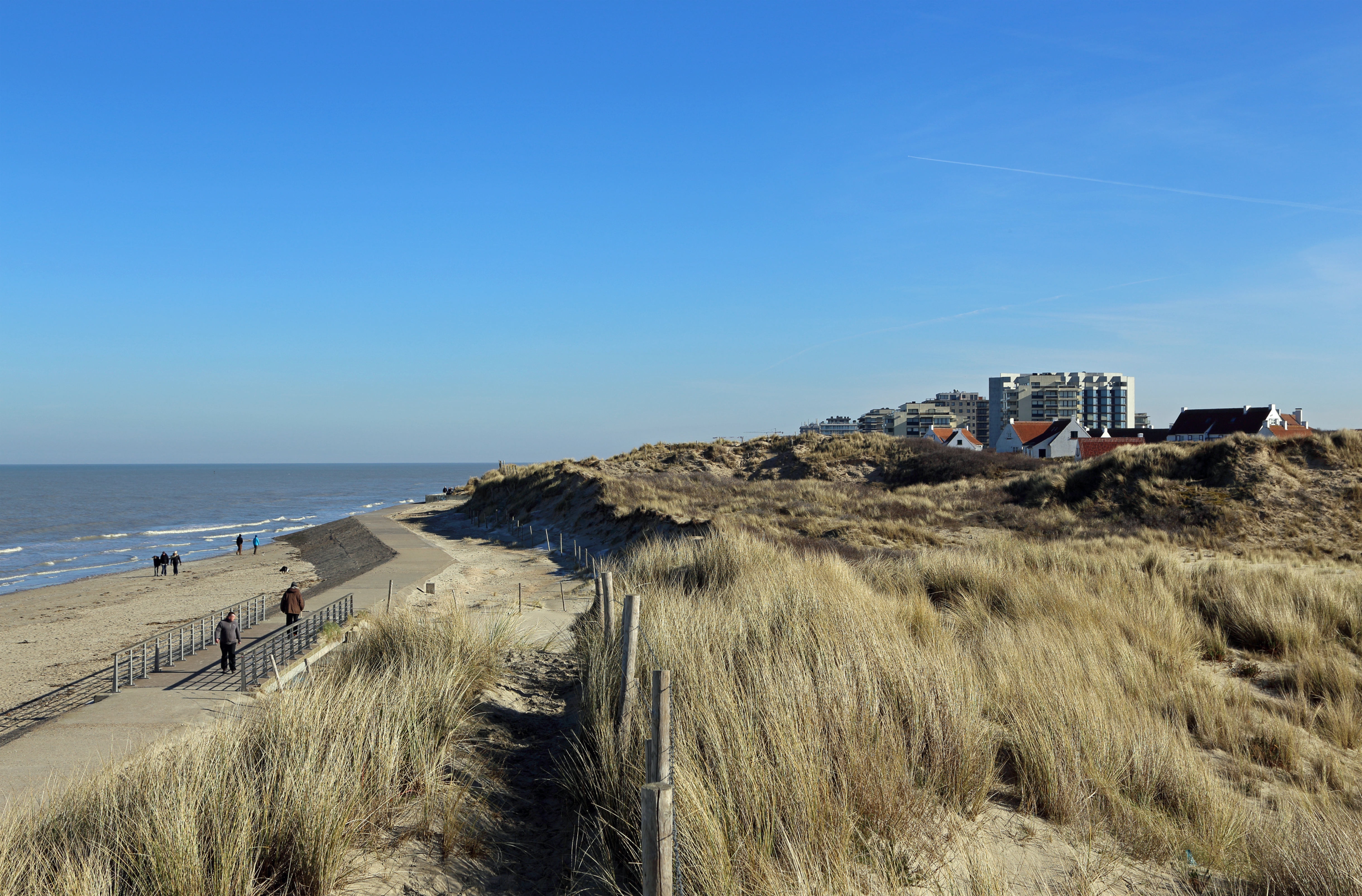 De Panne (Belgium): the dunes